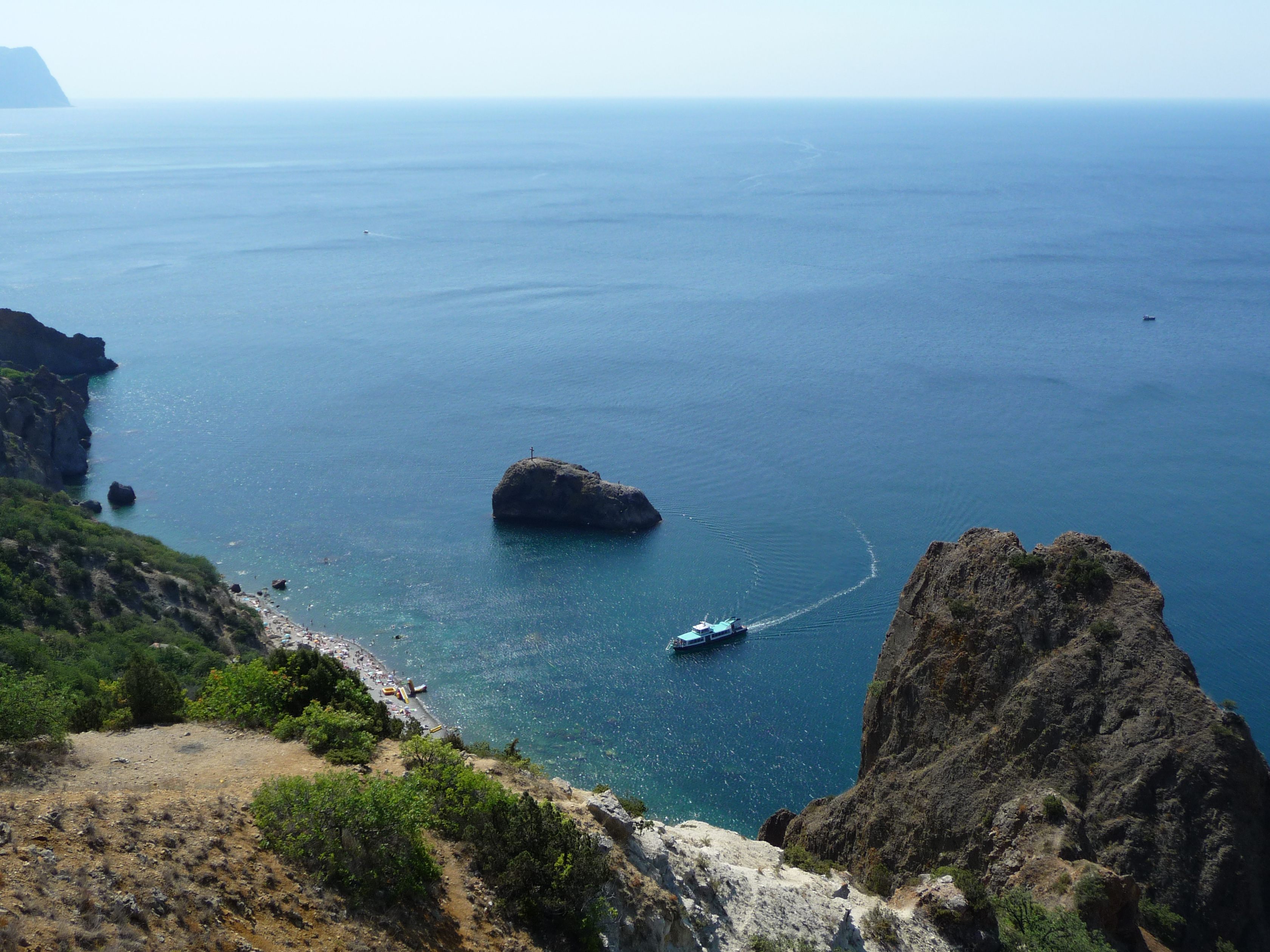 The Black sea, Fiolent rocks formation near Sevastopol.